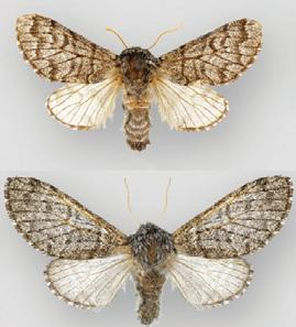 Panthea apanthea male (top), female (bottom)